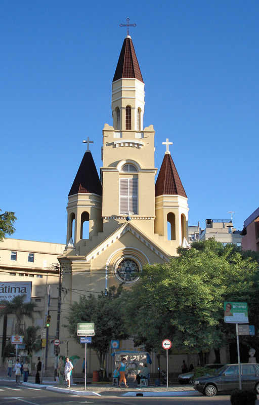 Chapel of the Holy Ghost, Porto Alegre, Brazil